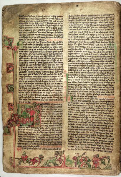 Flateyjarbók manuscript, XIII Century